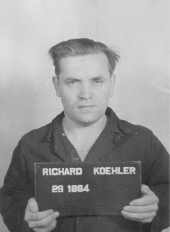 Richard Köhler was SS-Unterscharführer and member of the Kommando 99 (the execution squad at Buchenwald) at the concentration camp of Buchenwald. In the Buchenwald Camp Trial (part of the Dachau Trials) he was sentenced to death by hanging.